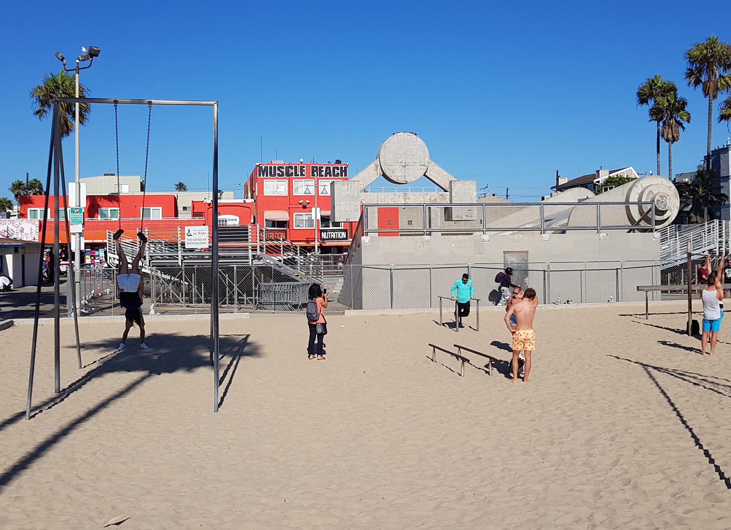 Muscle Beach Los Angeles